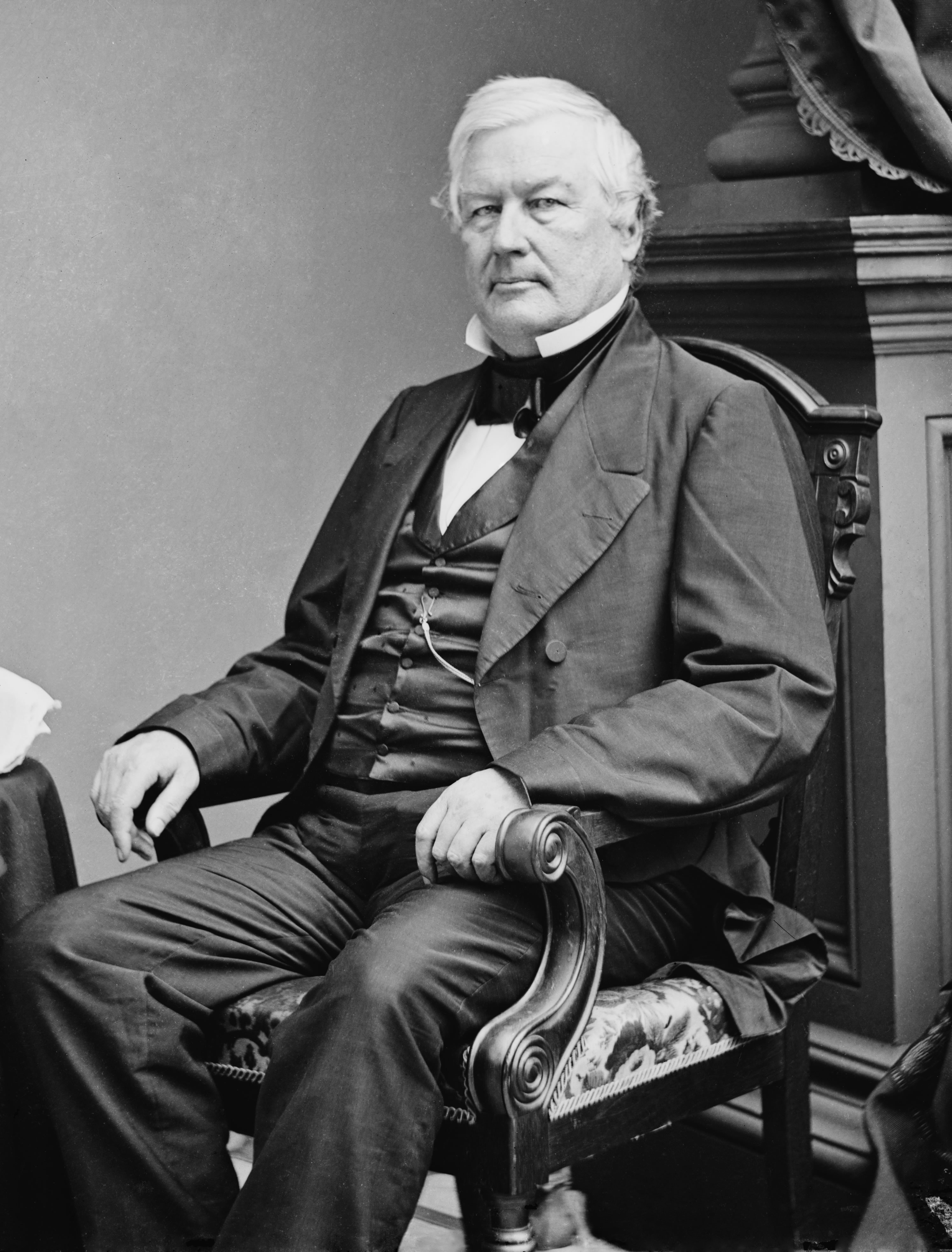 Millard Fillmore (13th president of the United States). Image by Mathew B. Brady circa 1855-1865, and forms part of the Library of Congress Brady-Handy photograph collection.